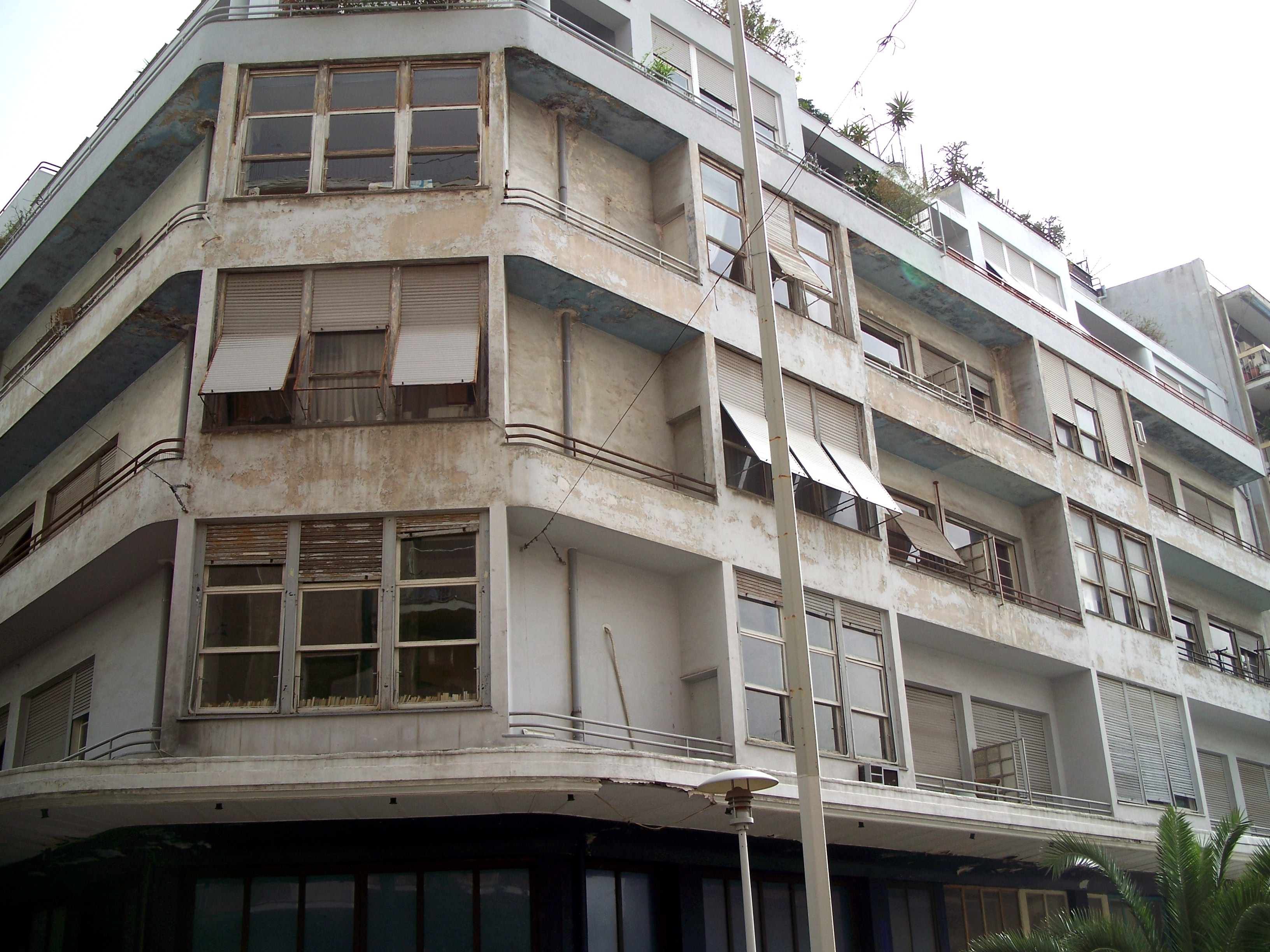 The "Blue condominium" on Exarchia square, Athens, Greece, which is a historical architectural landmark of the area. Designed by the architect Kyriakos Panagiotakos 1932-33